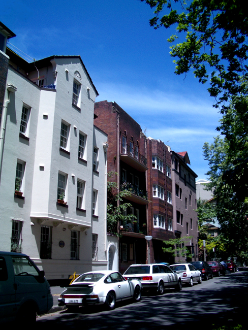 Art Deco and Spanish Mission style apartment buildings stand cheek-by-jowl in Tusculum Street.